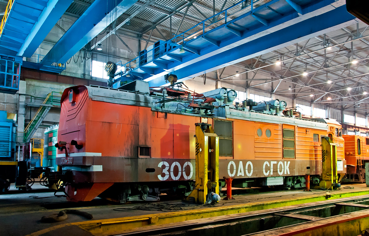 Electric locomotive OPE1m-300 in the depot of Stoylensky GOK. Belgorod region, Russia